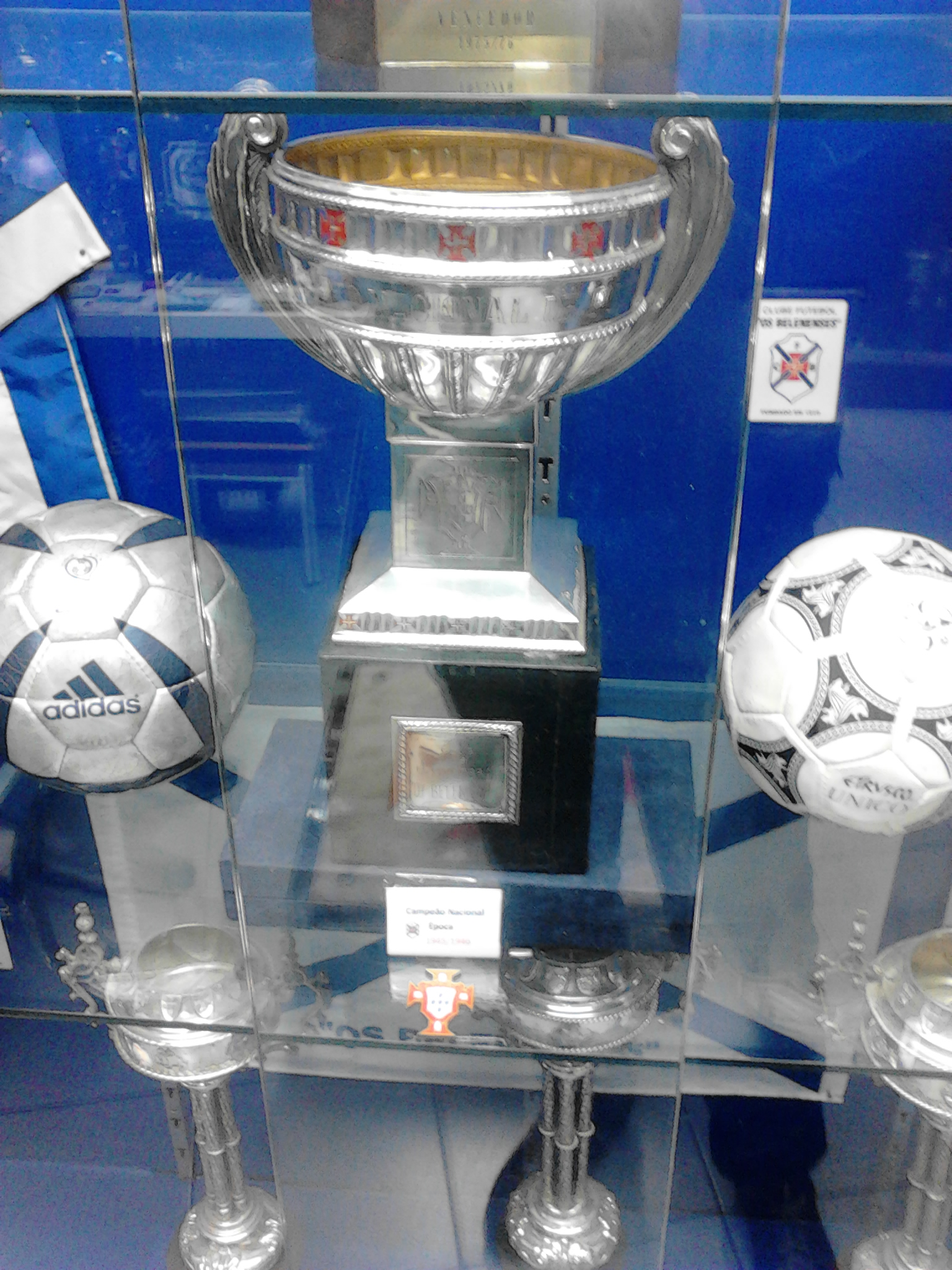 The most important trophy in the museum, the only first tier league title of Belenenses